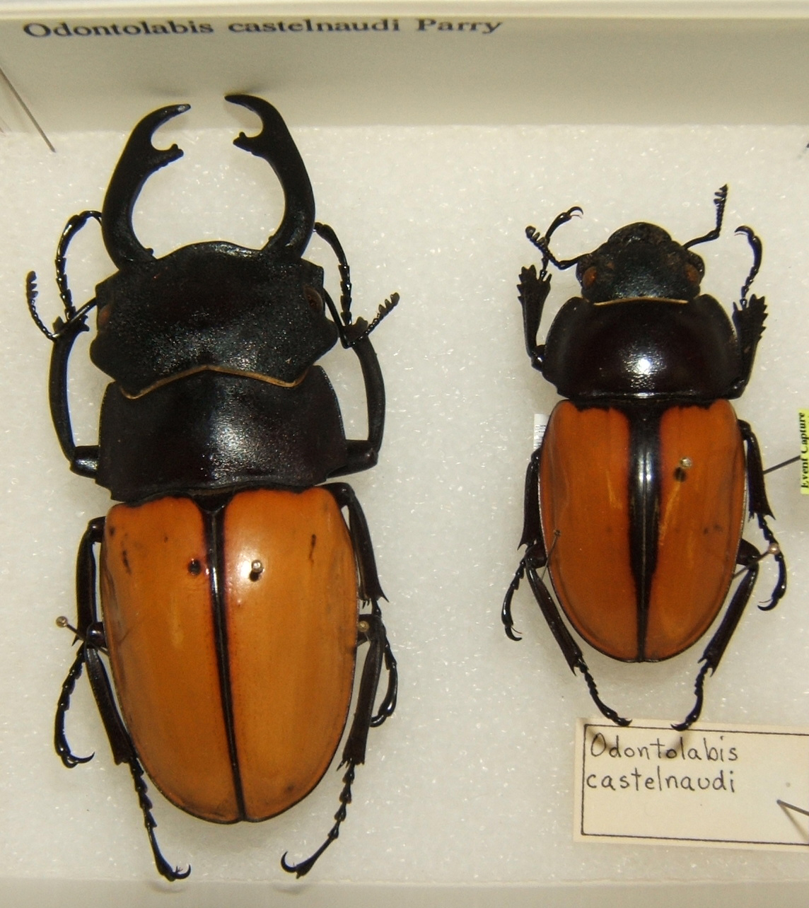 Odontolabis castelnaudi adult taken by Shawn Hanrahan at the Texas A&M University Insect Collection in College Station, Texas.